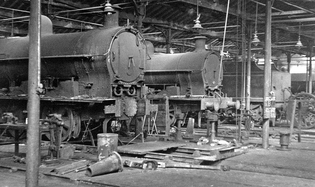 Inside the Repair Shops at Rugby Locomotive Depot. A line-up of two ex-LNW 0-8-0s and an LMS Compound 4-4-0.